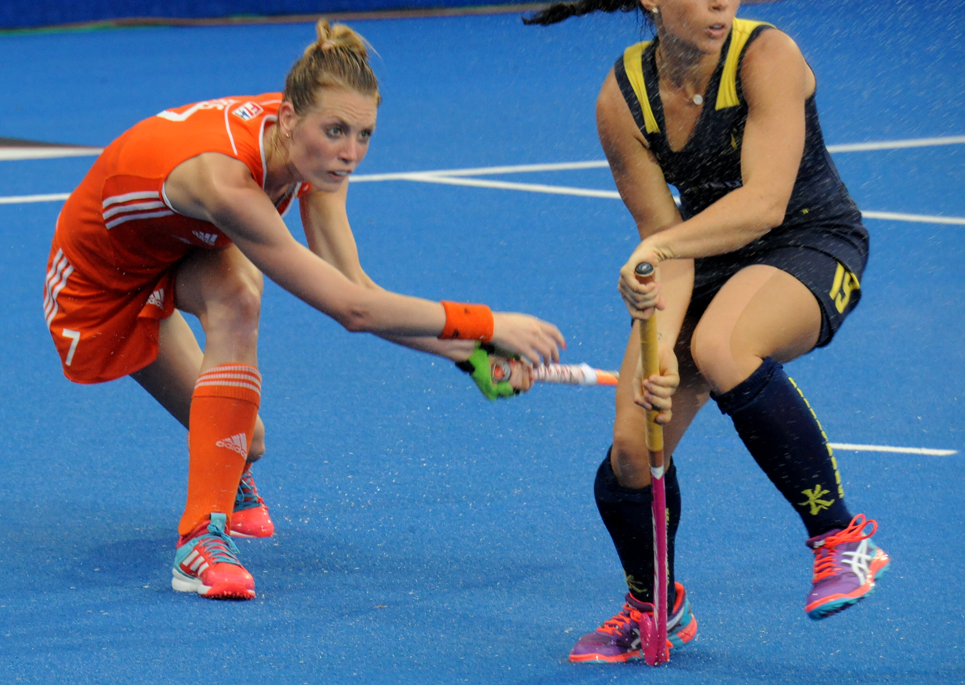 CT 2016: Australia v Netherlands